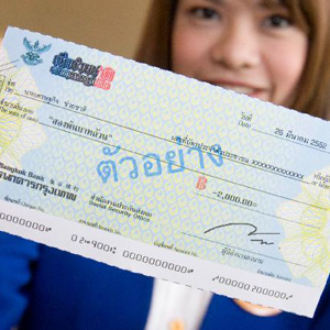 An example of 2,000 cheque given to people